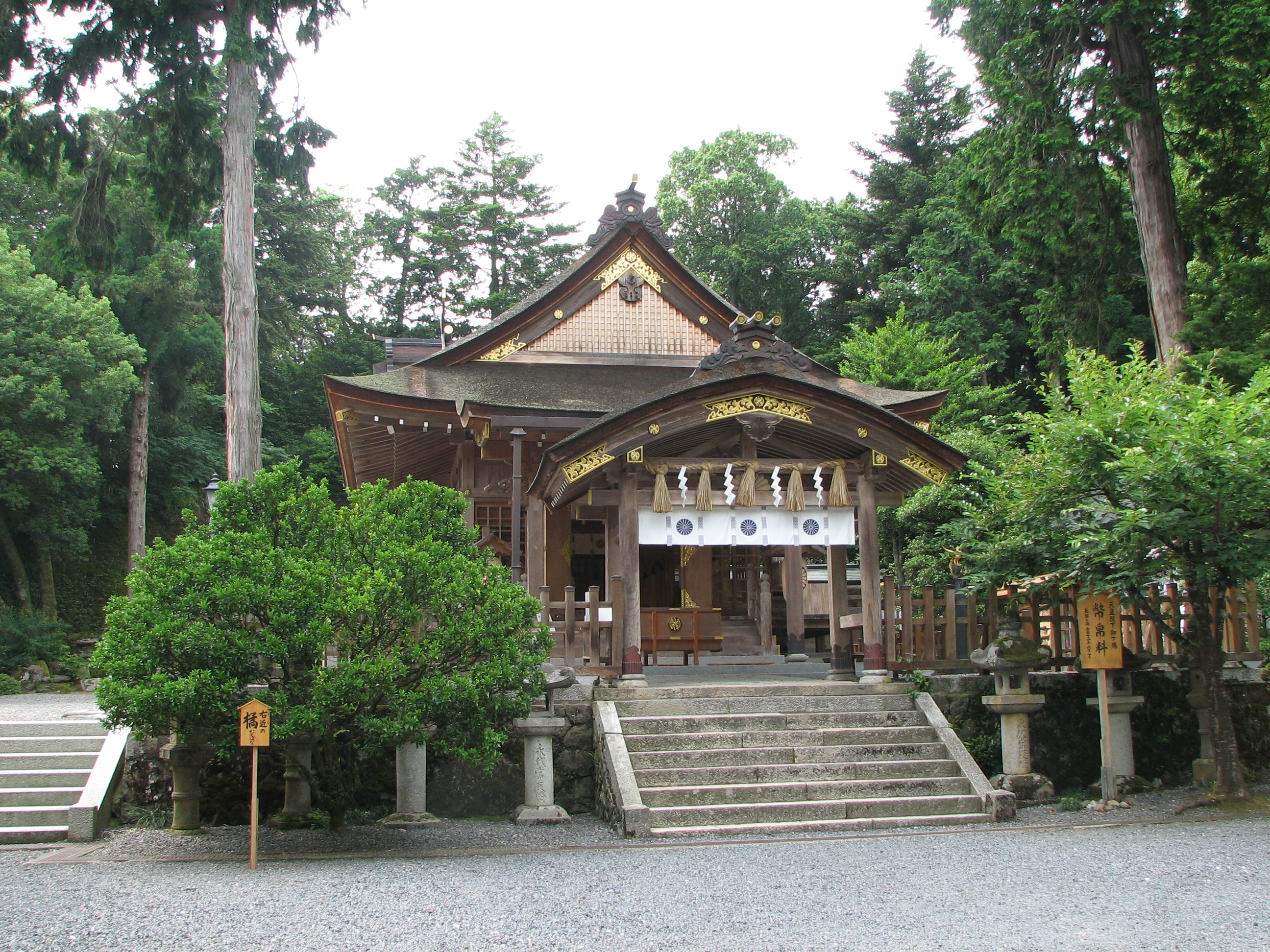 The shaden of Ube Shrine, Tottori, Tottori, Japan 宇倍神社（鳥取県鳥取市）社殿